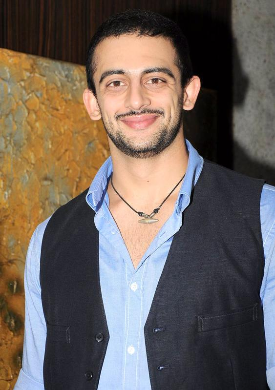 Arunoday Singh at Jism-2 premiere